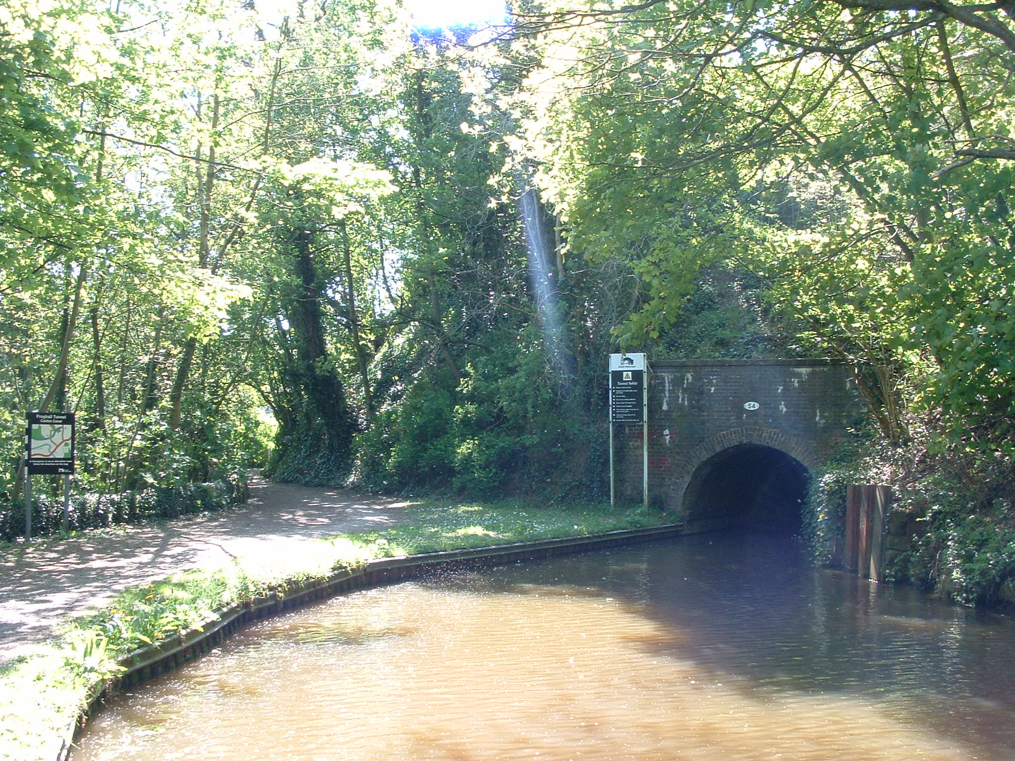 Uploaded by Photographer, Akke Monasso